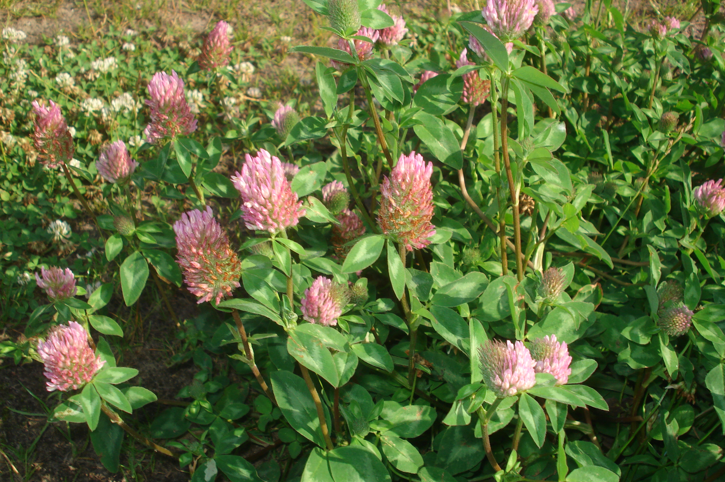 Red Clover (Trifolium pratense). Found in Riga town, Latvia